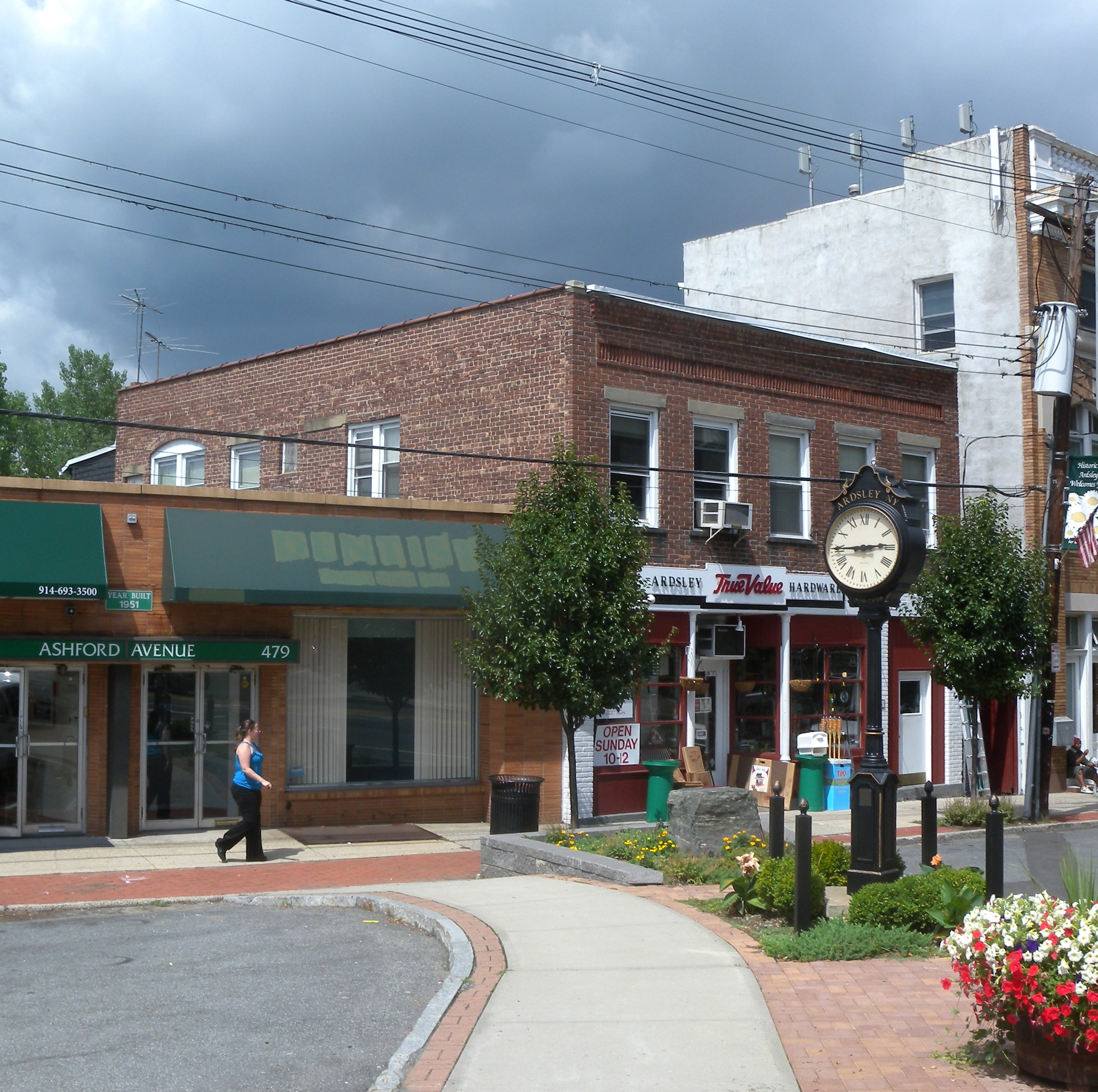 Looking north across Ashford Avenue plaza in Ardsley.